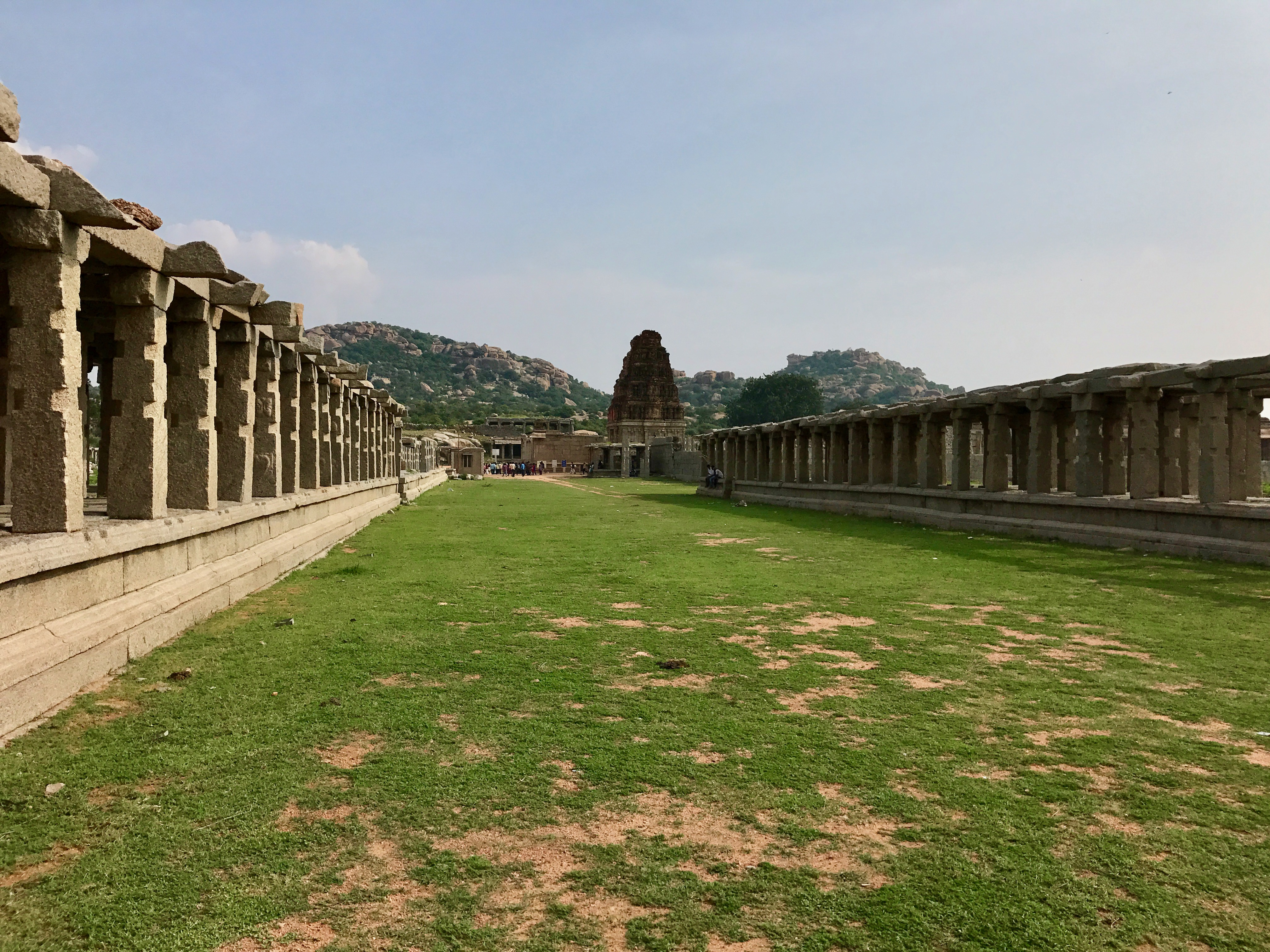 Vitthala temple complex is one of many quarters of the Vijayanagara Empire's old capital of Hampi. It consists of a shrine complex with an entrance gopurum, a major market with broad road and various water tanks and shrines along the way. This was a major Vaishnavism temple, with stone chariot shaped Garuda (Vishnu's vahana) shrine facing the main temple mandapa and grabha ghriya. The mandapa and the temple are all squares, wherein the main mandapa forms a star with overlaid squares. In all four directions there are minor shrines, with pillared halls. The main and smaller shrines include Vaishnavism, Shaivism and Shaktism images. Mini reliefs show legends from Hindu texts such as the Ramayana, the Mahabharata and the Puranas. Some reliefs show Kama scenes, others Artha and daily life of people doing yoga, dance, playing music, playing with babies, making meals, etc. Some panels are devoted to Alvar saints and to the Hindu philosopher Ramanuja. A trilingual stone inscription dated 1516 is in Kannada, Tamil and Telugu. One of the minor shrines features 100 pillars. The Vitthala temple complex, acccording to George Michell, shows evidence of systematic attempts at its destruction using fire and animal powered smashing. Hampi ruins and monuments date to pre-17th century period of South Indian history, particularly those related to the Hindu Vijayanagara Empire era (14th-16th centuries). The site consists of numerous ruins and temples over a large area, the most visited and studied are those located near the Tungabhadra river. The town derives its name from the Pampa Devi Hindu mythology in Sanskrit, with Pampa morphing into Hampa in Kannada, then Hampi. The city served as capital of the Vijayanagara rulers, was pillaged, ruined and abandoned after Muslim armies of a Sultanate coalition attacked and defeated it. In the modern era, it serves as an archaeological site and is a UNESCO world heritage site.